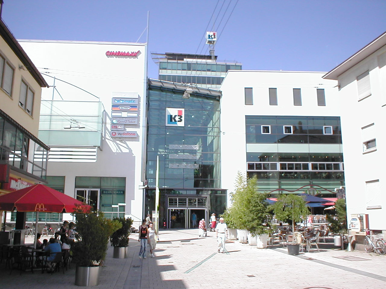 Theaterforum K3 in Heilbronn